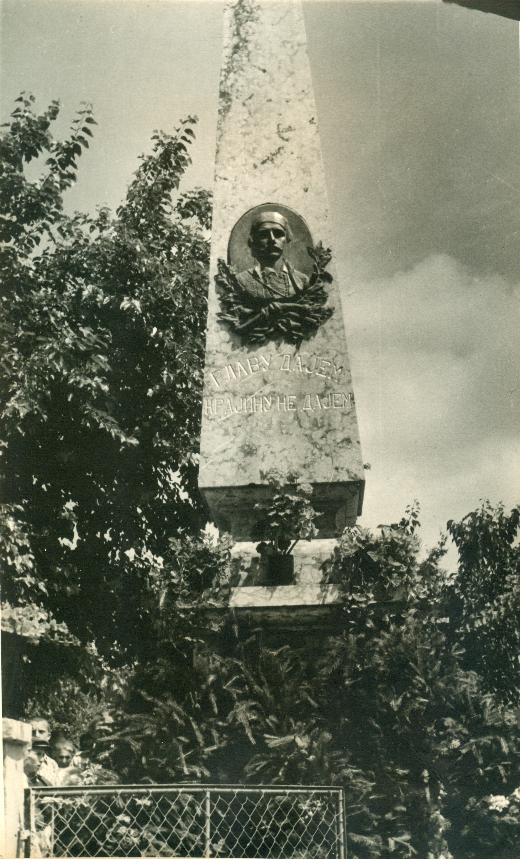 Monument to Hajduk Veljko Petrovic in Negotin, built 1892. Srpski (latinica): Spomenik Hajduk Veljku Petroviću u Negotinu, izgradjen 1892.